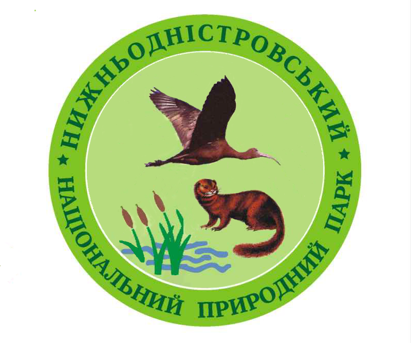 Low Dniester National Nature Park